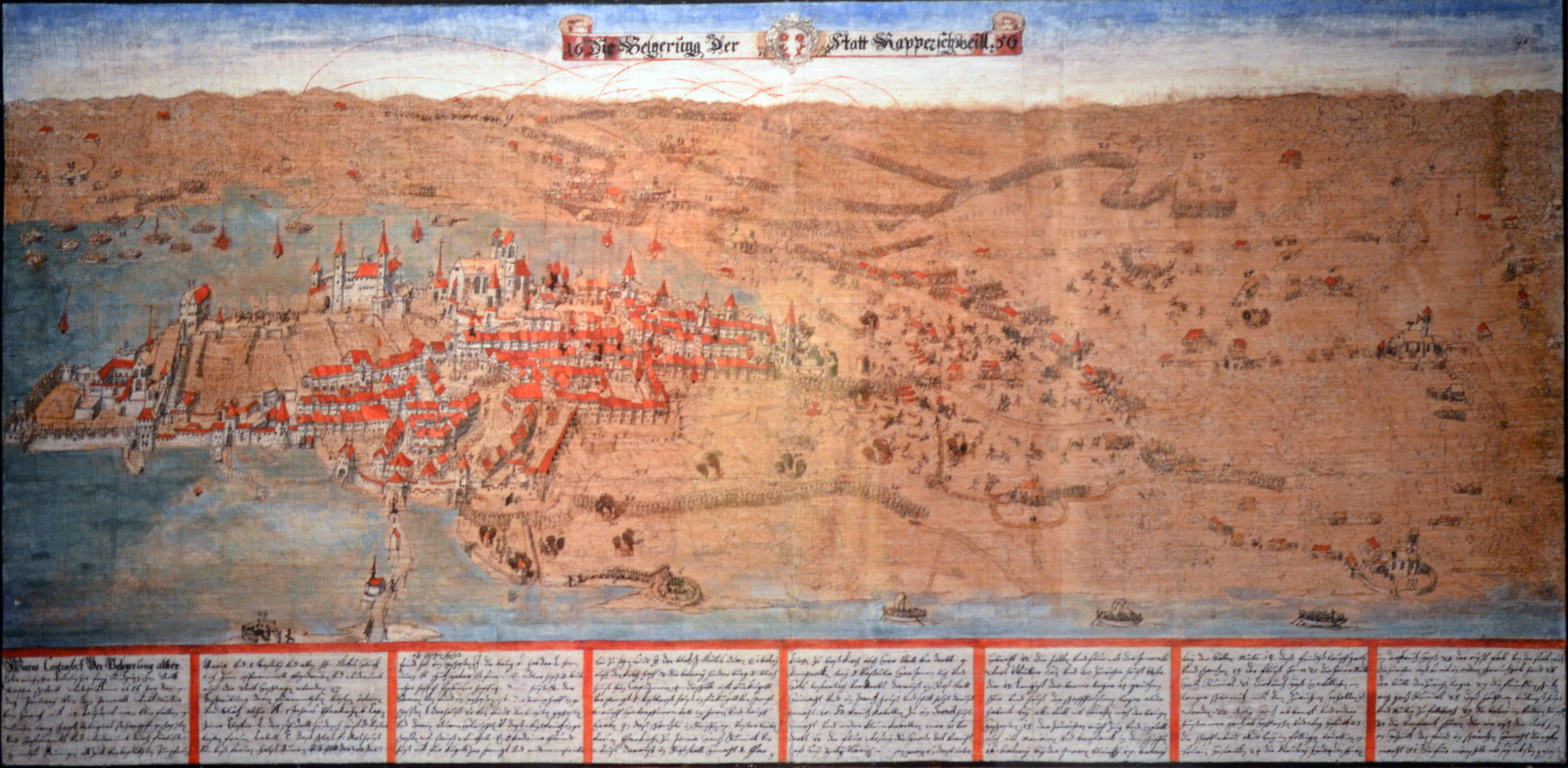 Collection of the Stadtmuseum) in Rapperswil (Switzerland)